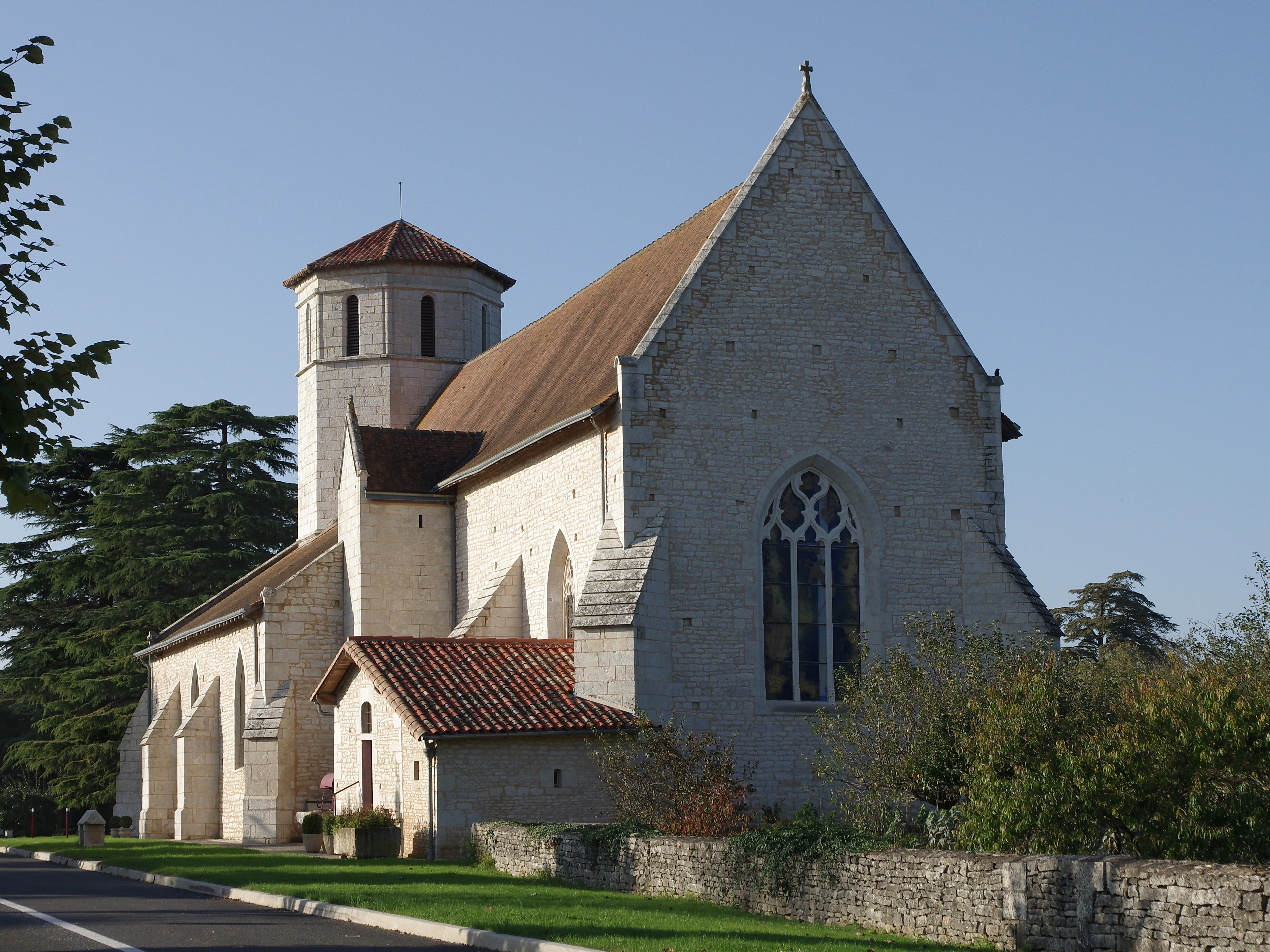 Church of Blanzay (XIIth and XVth century) with a romanesque bell tower and a gothic chevet. Blanzay, Vienne, France.